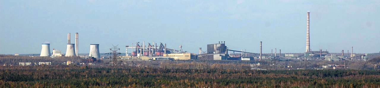 Katowice iron works, Dąbrowa Górnicza, Poland